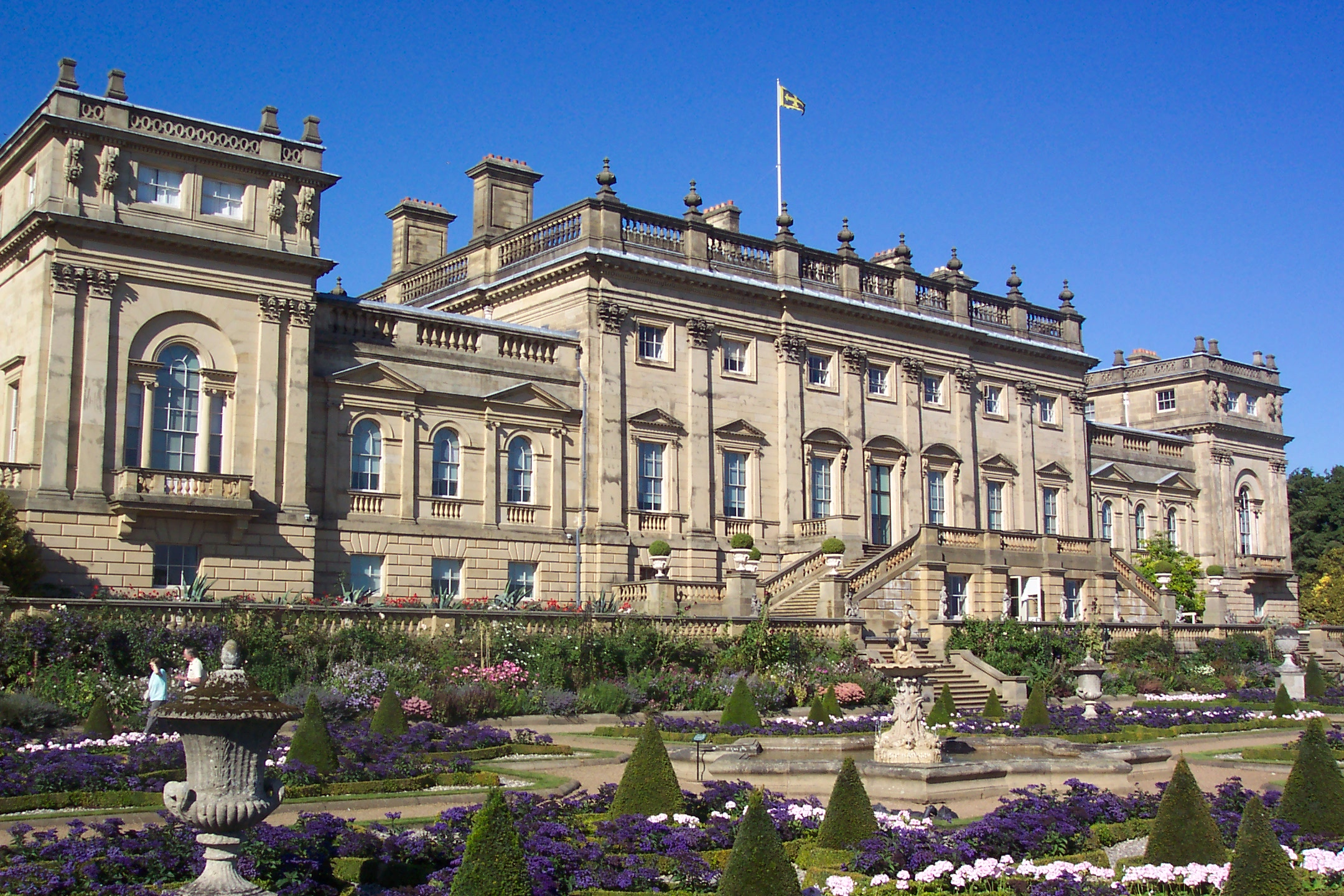 Harewood House from the terrace gardens